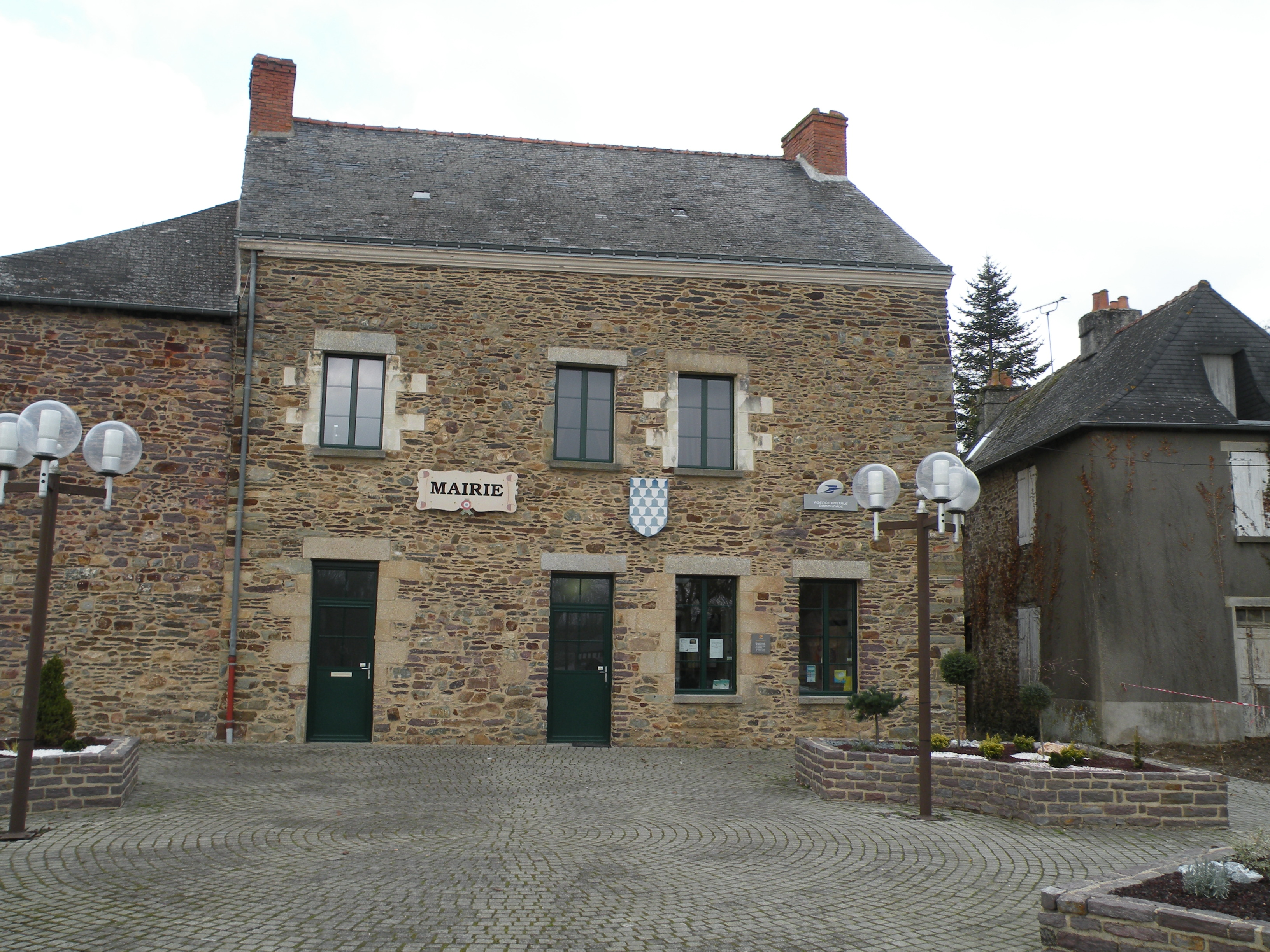 Town hall of Lohéac.